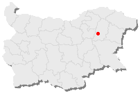 Map of Bulgaria, the red point is the position of Veliki_Preslav.